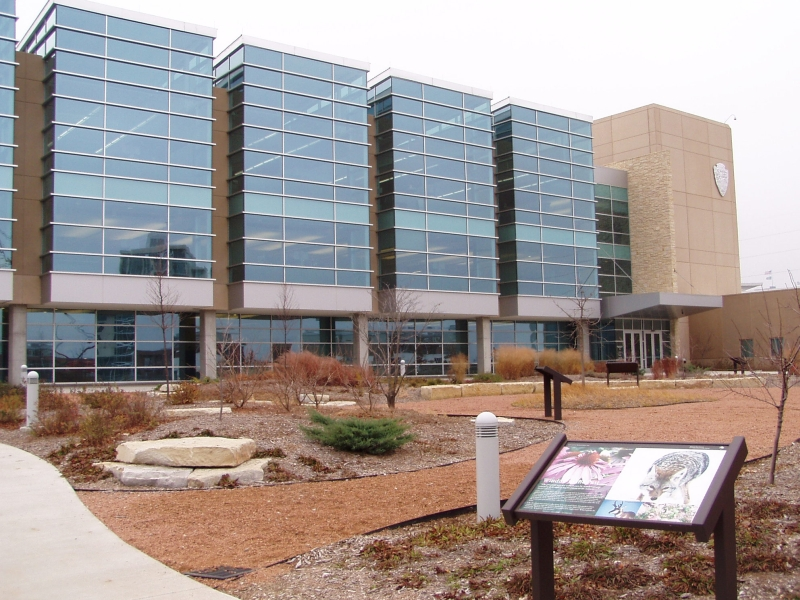 Midwest Regional Office of the National Park Service